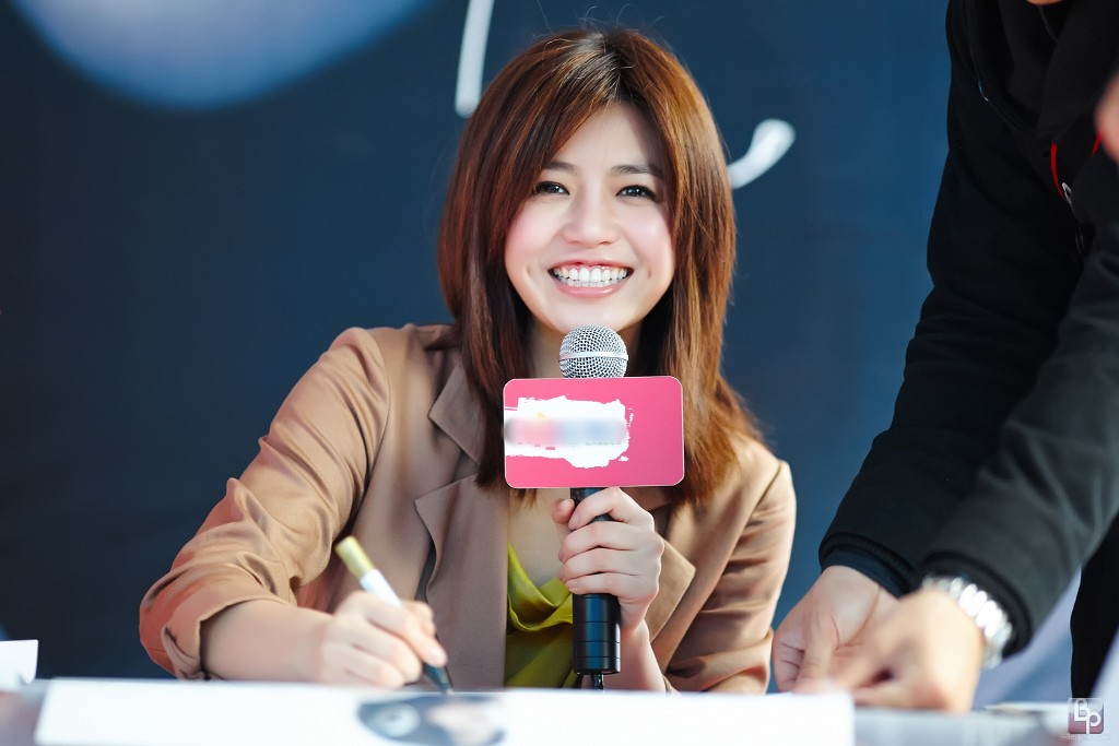 Michelle Chen is a famous actress and singer in Taiwan,also known as Chen Yan-Hsi(Chen Yan-Xi) in Chinese pinyin.中文（中国大陆）: 陈妍希是台湾有名女演员及女歌手。